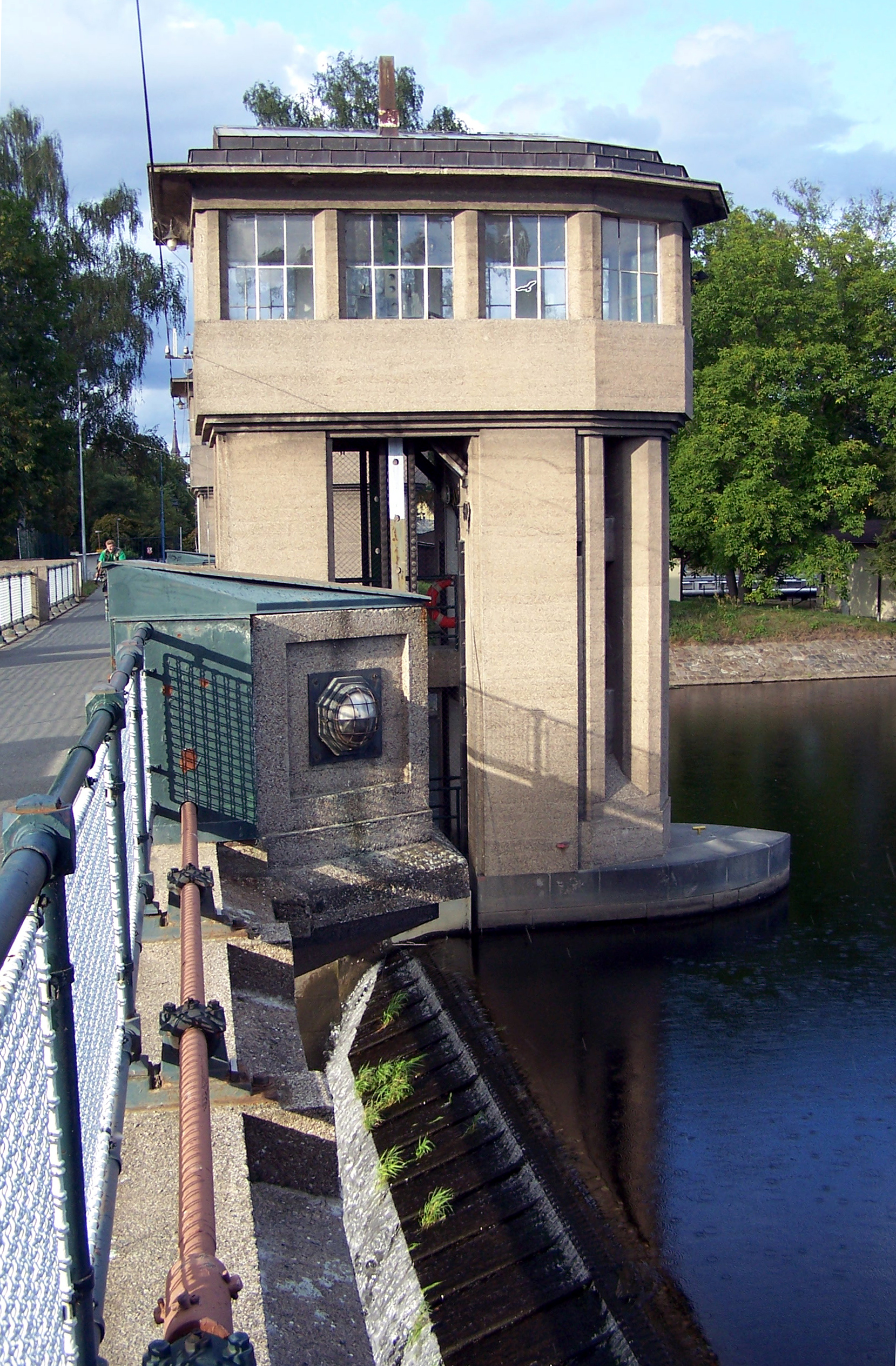 Water power station in Poděbrady.